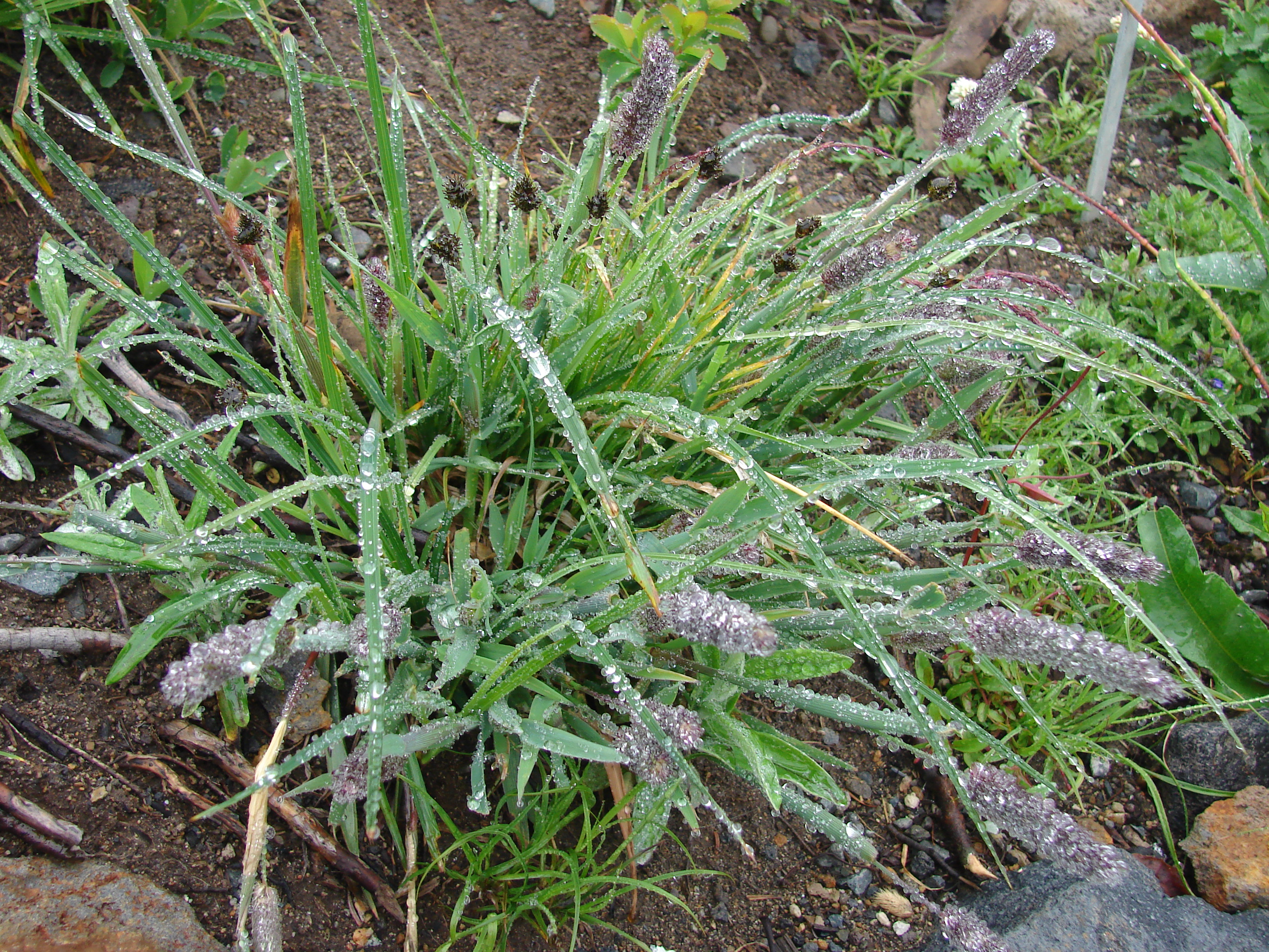 Alpine Timothy Alpine Timothy (bunchgrass) Keywords: plants